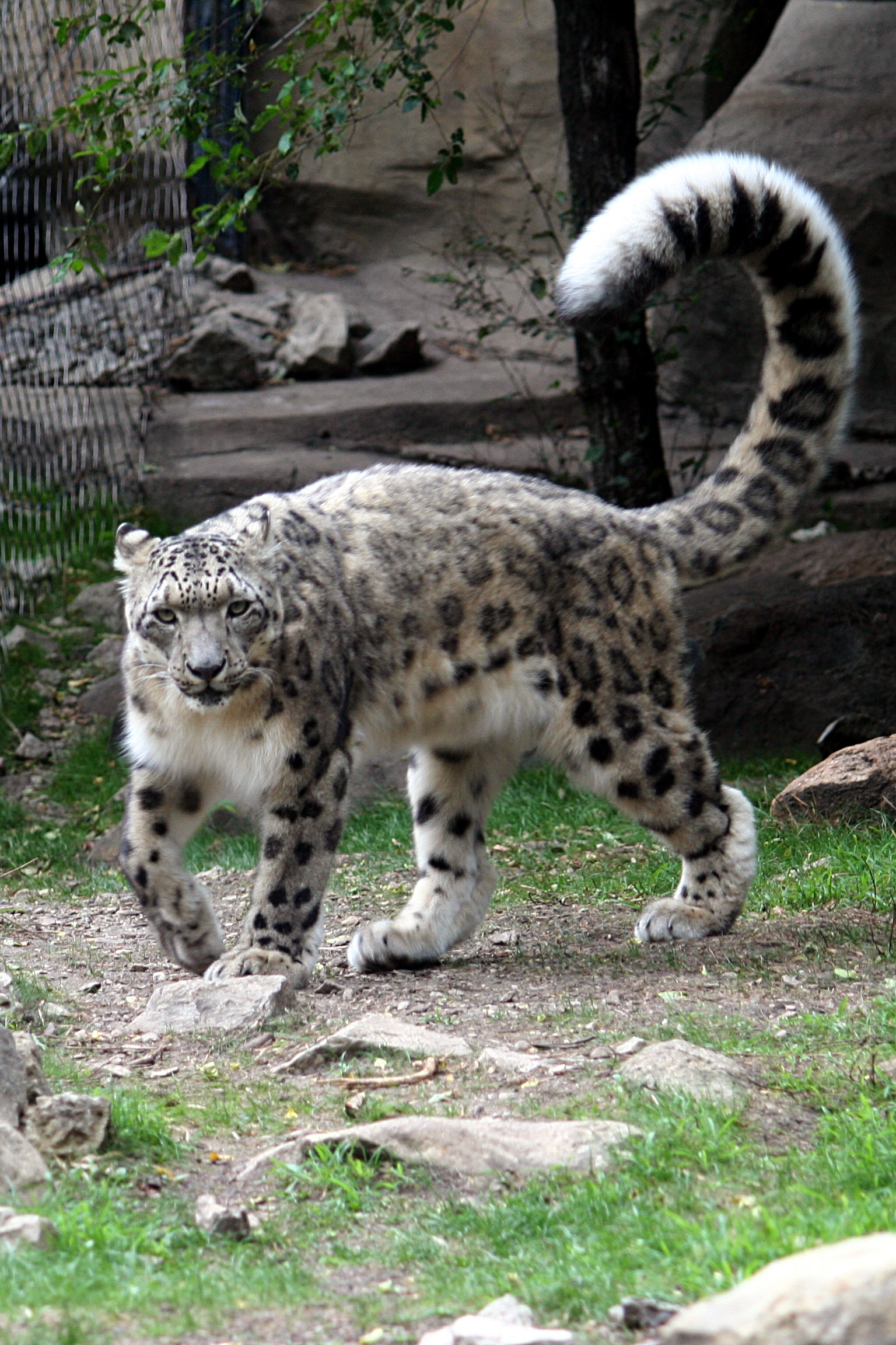 A tail and a cat (Brookfield Zoo)